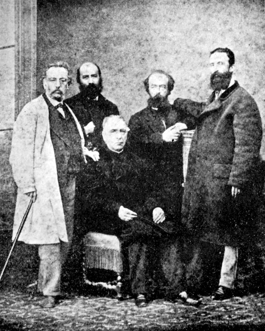 From left to right (standing): Fernando Garrido, Aristide Rey, Élie Reclus, Giuseppe Fanelli. (sitting) José María Orense. The picture was taken during Fanellis trip to Spain.